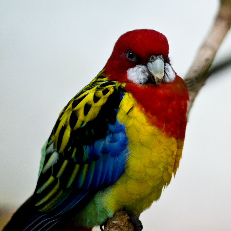 Eastern Rosella (Platycercus eximius) at Woodland Park Zoo, Seattle, USA.